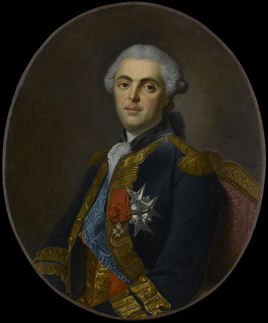 Portrait of an unknown naval officer under Louis XV